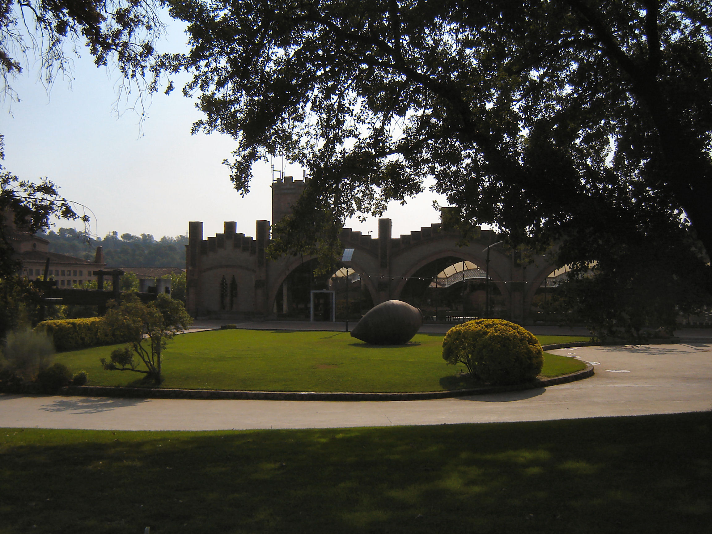 Museum of the Codorníu caves on the domains of Codorníu. Sant Sadurní d'Anoia, comarca Alt Penedès, province of Barcelona, Catalonia, Spain.